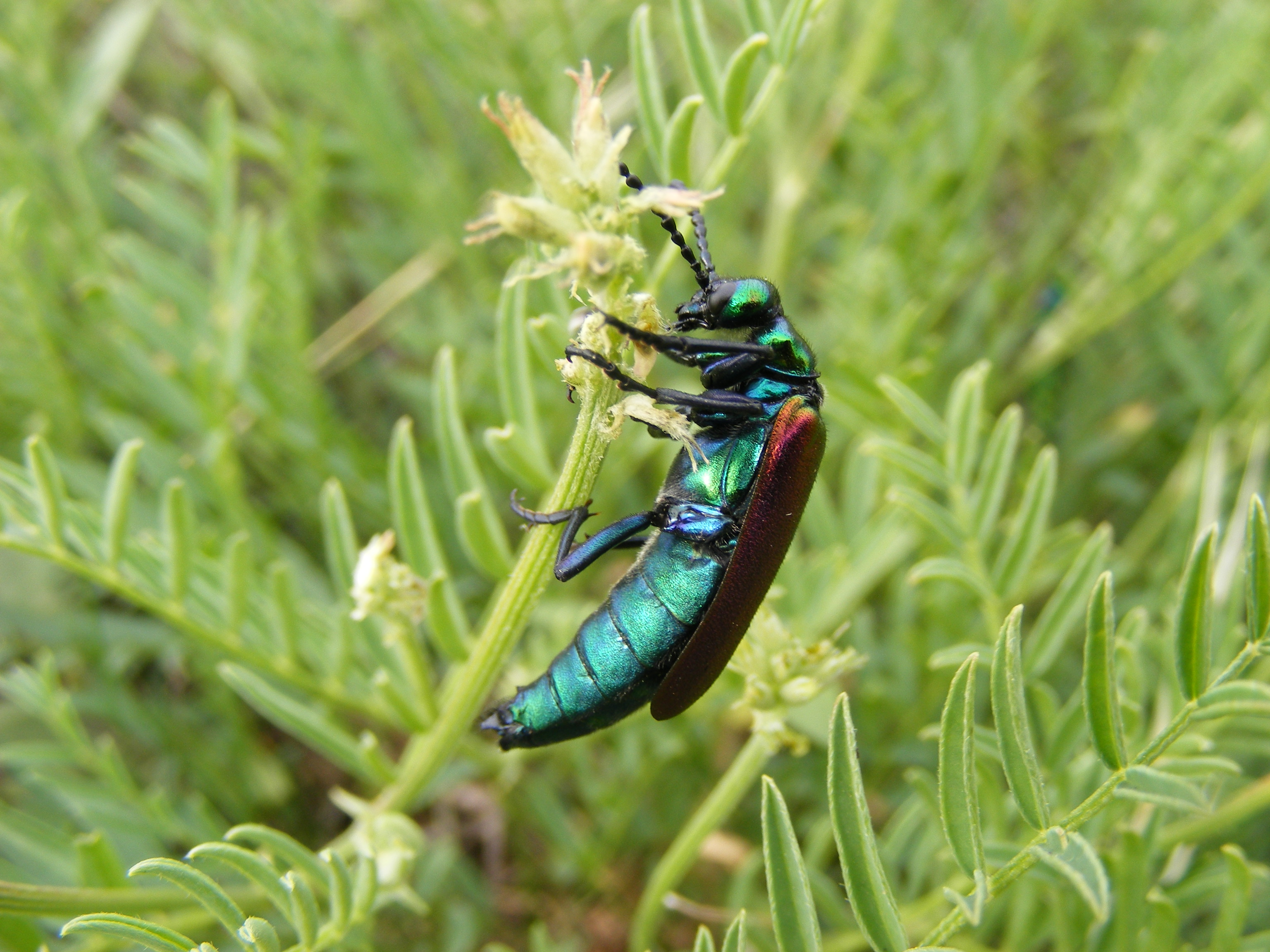 The bright colors of the Nutall's blister beetle make it easy to spot in native prairie. A group of them were eating the flowers off milkvetch plants when this photo was taken. Blister beetles will release a skin irritant if squeezed. Photo was taken at at Waterfowl Production Area in Waubay Wetland Management District in SD.